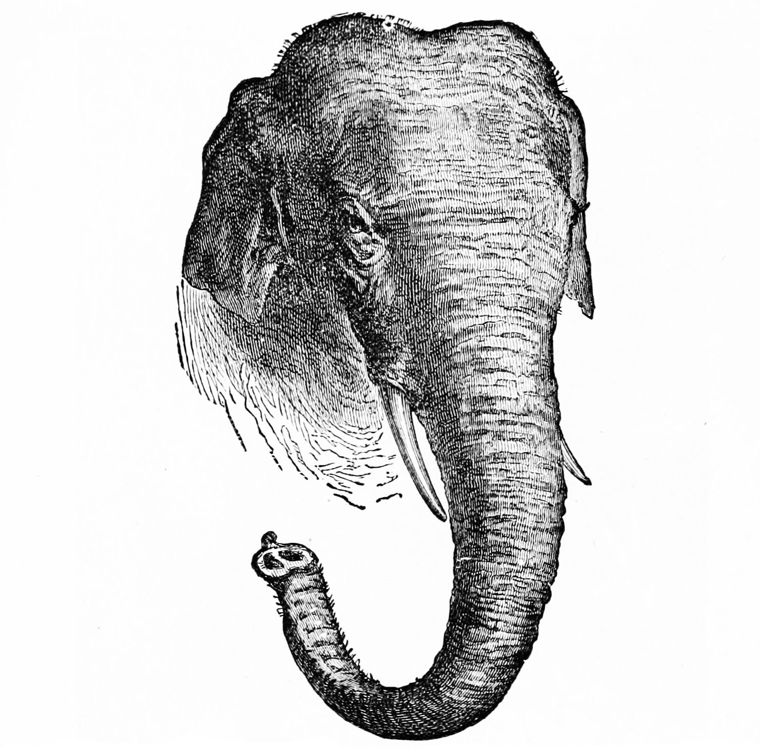 Illustration of the head and trunk of an Asiatic elephant